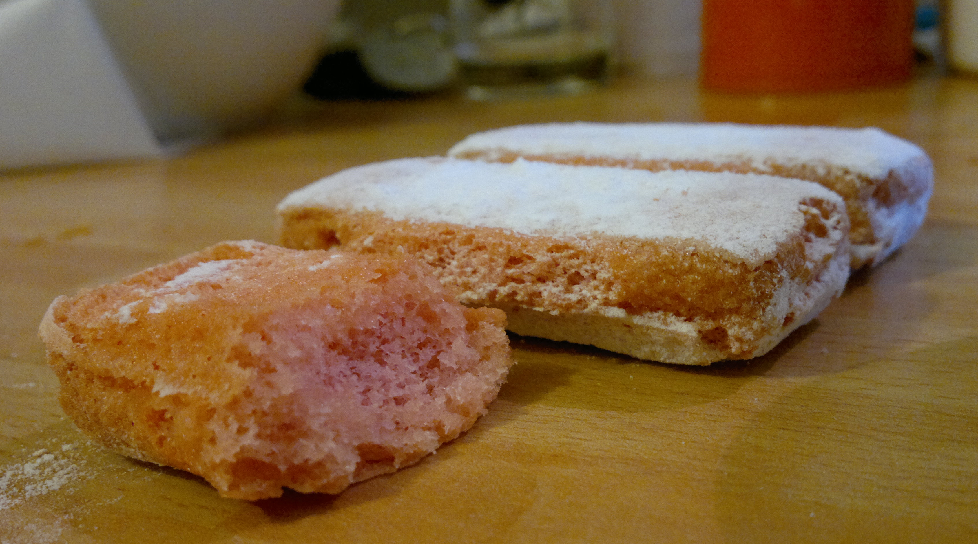 An half-cut biscuit rose de Reims